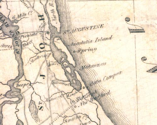 Early map of the state of Florida, appeared in The Territory of Florida or Sketches of the Topography, Civil and Natural History, of the Country, the Climate, and the Indian Tribes, from the First Discovery to the Present Time by John Lee Williams. Lithographed by Greene and McGowran, New York, 1837.